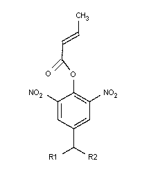 structure of dinocap-4. R1 is methyl, ethyl or propyl; R2 is hexyl, pentyl or butyl.